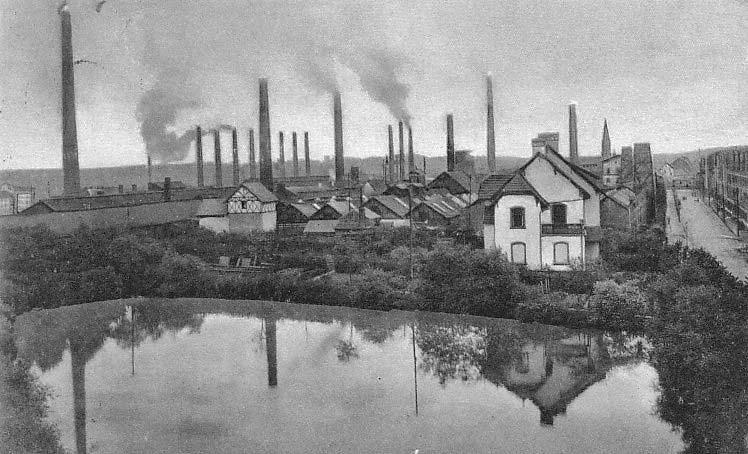 Postcard of Westfälische Drahtwerke (Westfalian Wire Factory) in Bochum